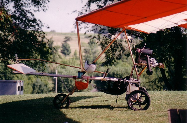 I took this photo of a Pterodactyl Ascender II+2 in 2001.